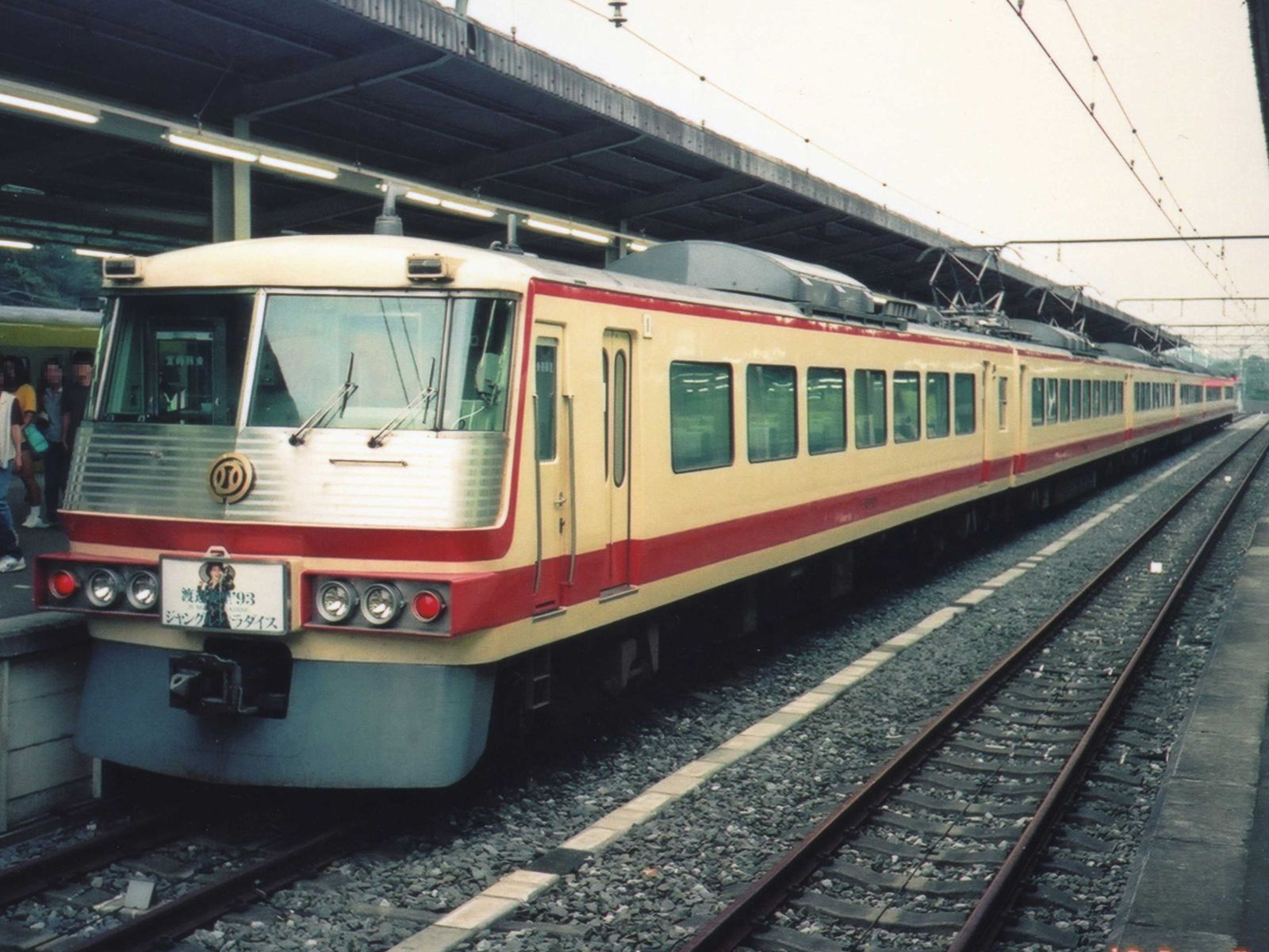 Seibu Railway, EMU type 5000 "Red Arrow" at Seibu Studium Sta.